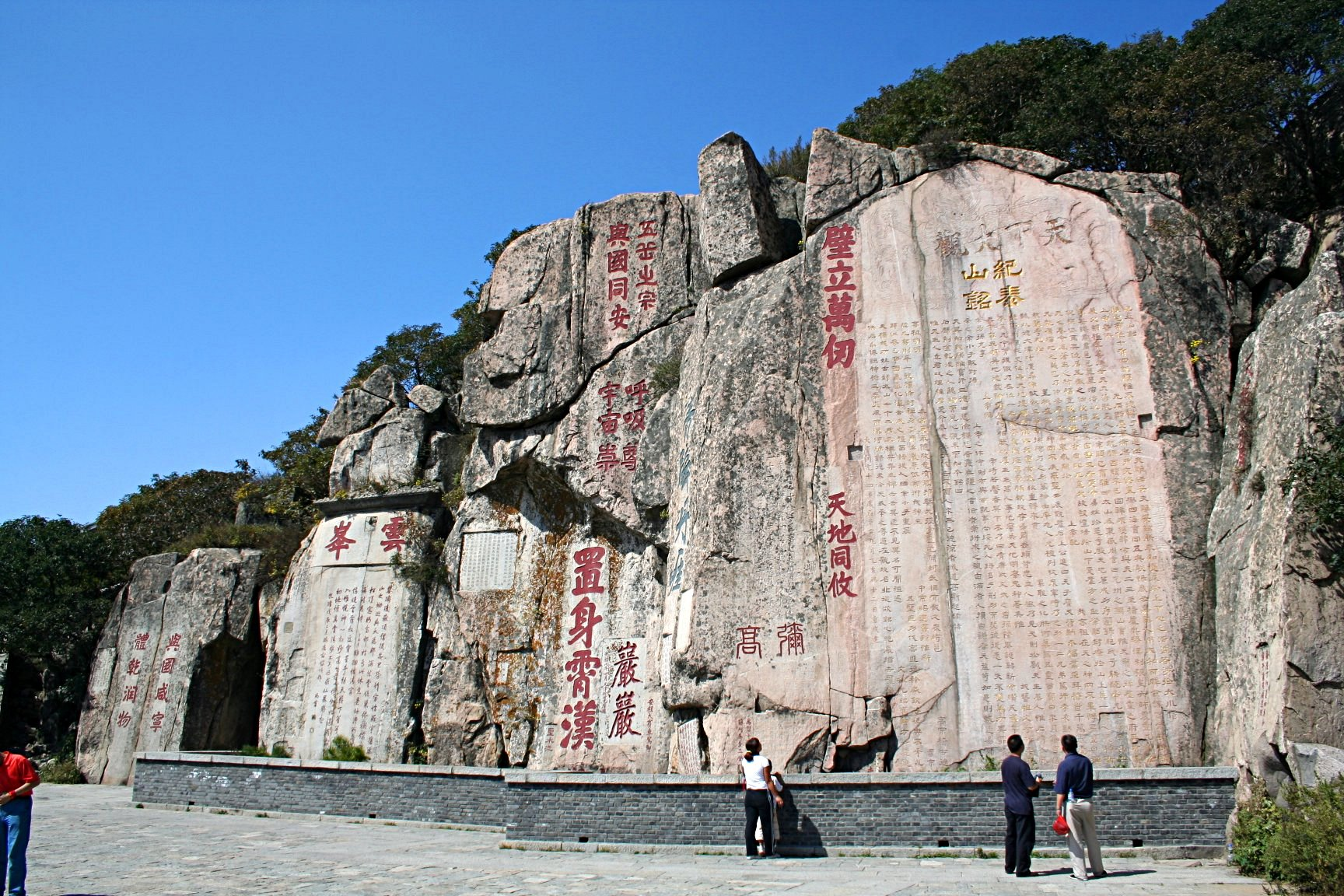 Rock inscriptions on Tai'shan—Mount Tai, Shandong Province, eastern China.